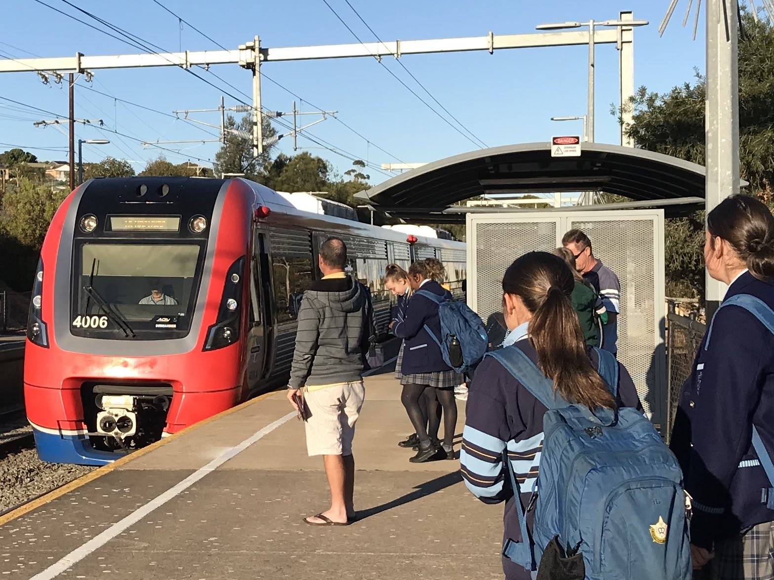 Marino Rocks community and school children using the station